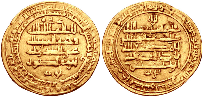 Coin of Rukn al-Dawla (also known as Hasan), the first Buyid amir of northern and central Iran. Struck at the Madinat al-Salam (Baghdad) mint.